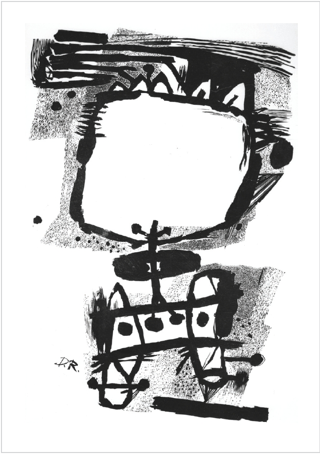 Dieter Reick, without title (1958). Linoleum cut.